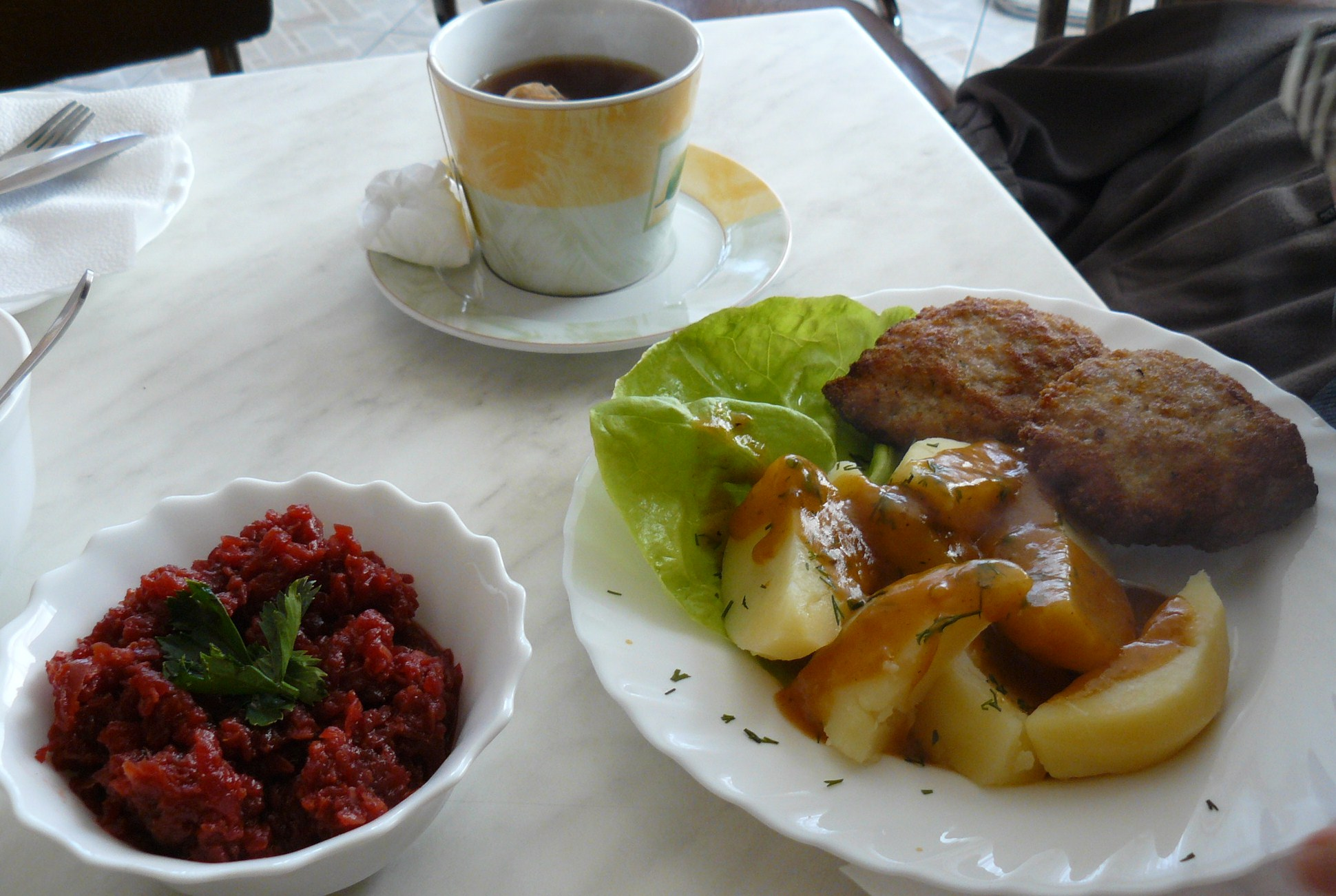 The typical Polish dish - minced pork (kotlety mielone), potatoes, beets, tea.